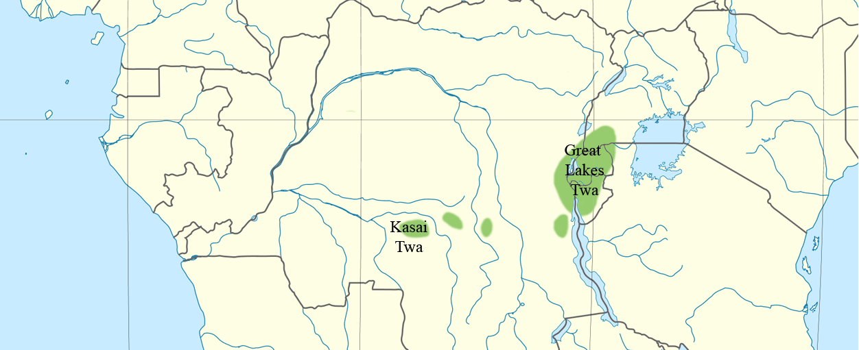 Twa populations according to Stokes (2009) Encyclopedia of the Peoples of Africa and the Middle East